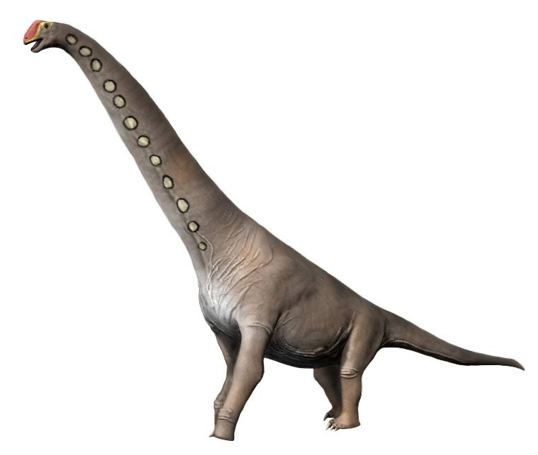 Restoration of Brachiosaurus altithorax. Matches proportions in skeletal diagram by Scott Hartman.[1]